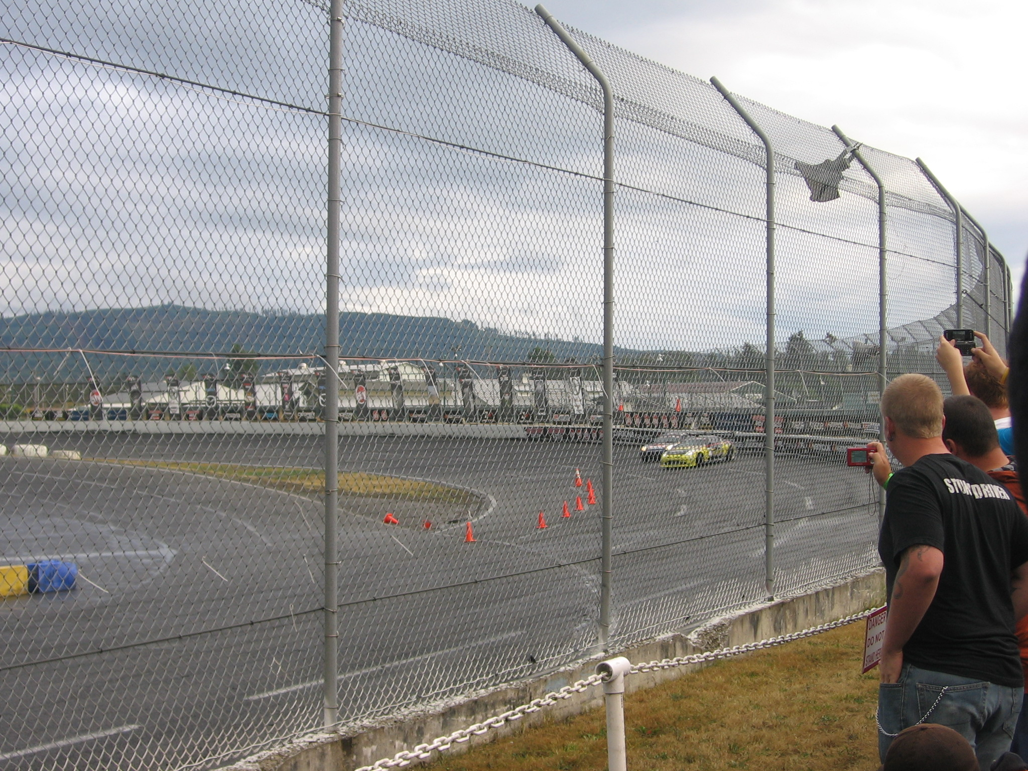 Formula D racing